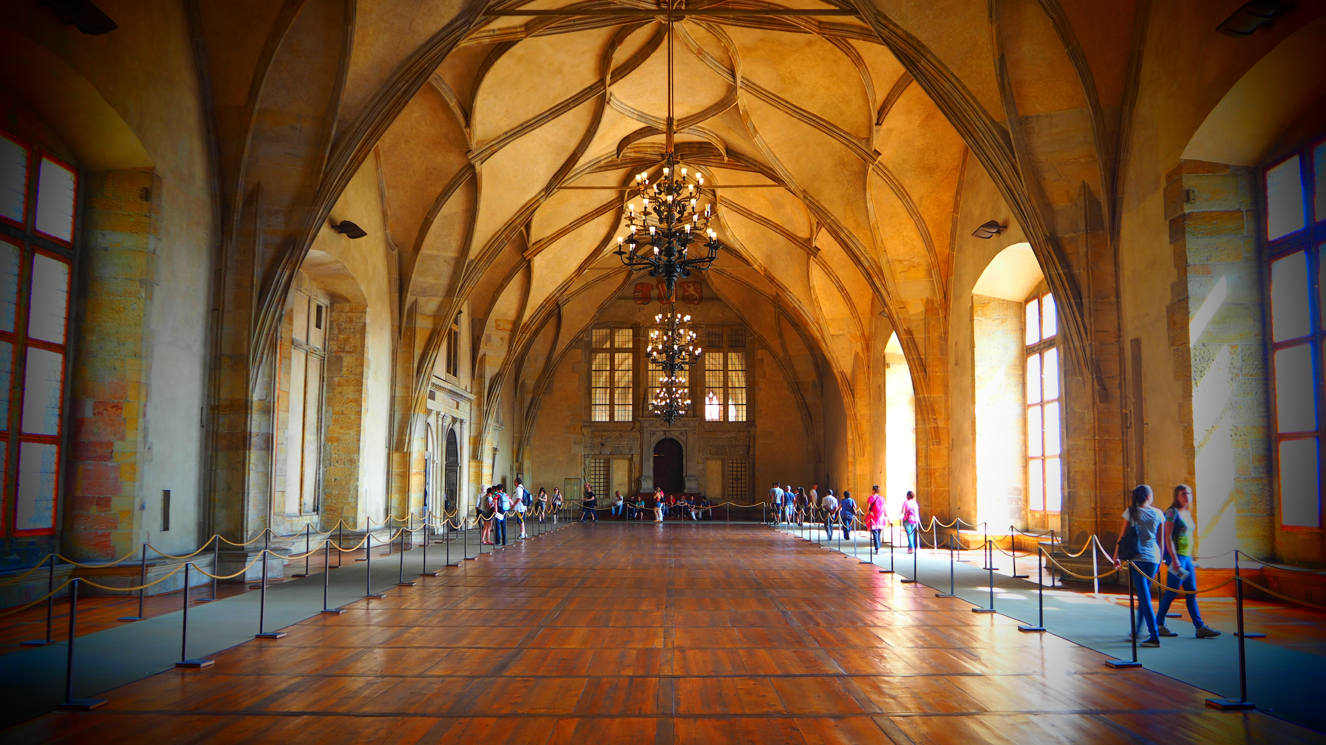 Prague, Czech Republic ◘◘◘◘◘◘◘◘◘◘◘◘◘◘◘◘◘◘◘ You like Bucharest more? Try my site about the capital of Romania here! I know you'll like it!